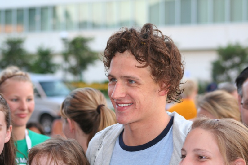 Photo of Ryan Lochte during 2008 Olympic Trials (Omaha, Nebraska)